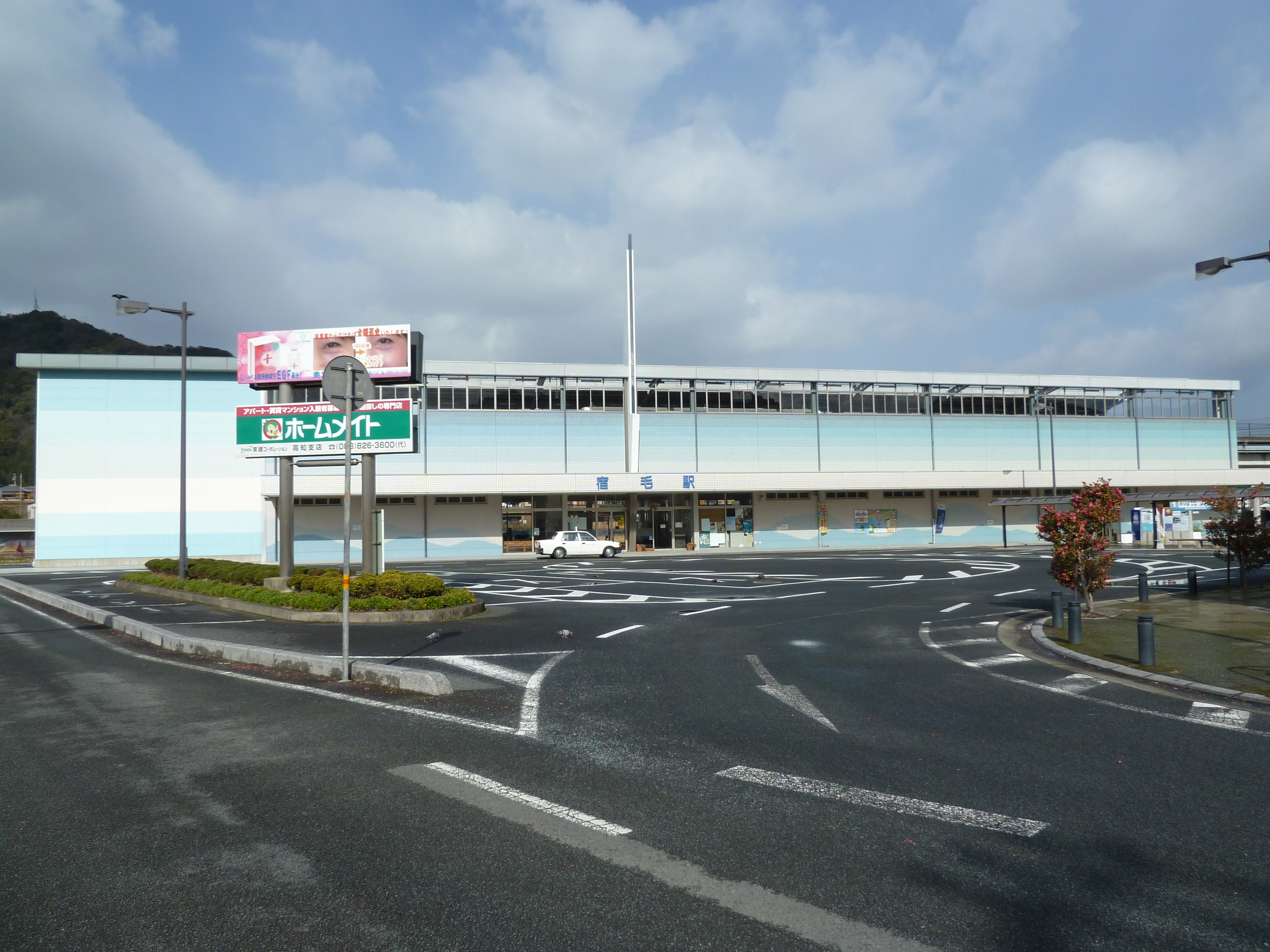 宿毛駅舎